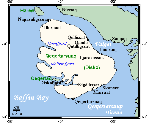 A map showing Disko Island and nearby areas. This map's source is here, with the uploader's modifications, and the GMT homepage says that the tools are released under the GNU General Public License.